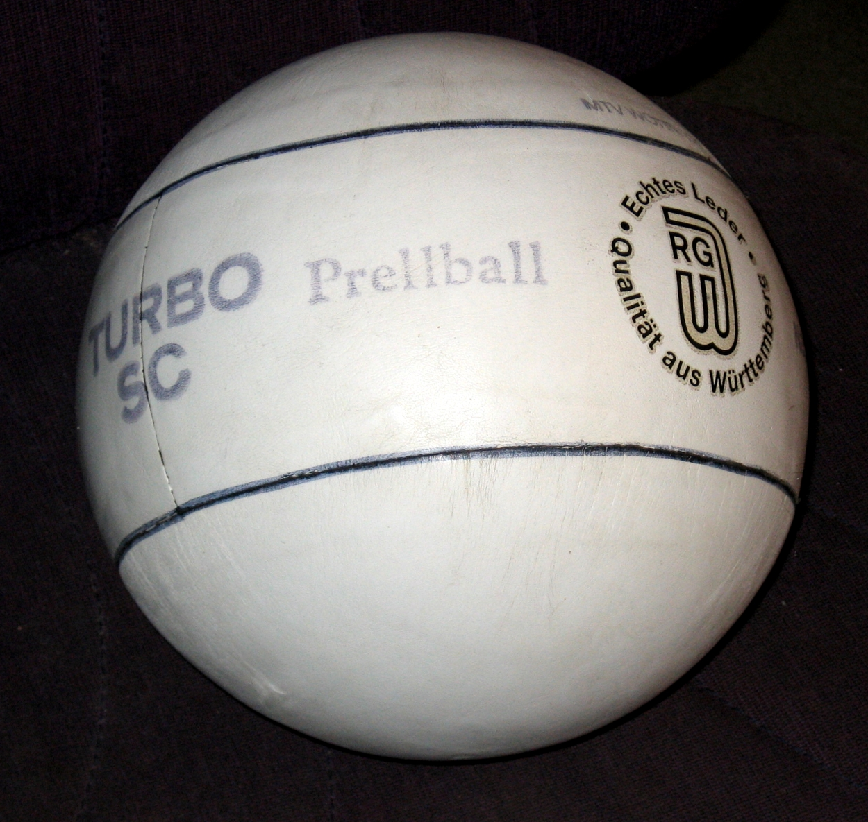 A Prellball made of leather complying with the standard of the german DTB